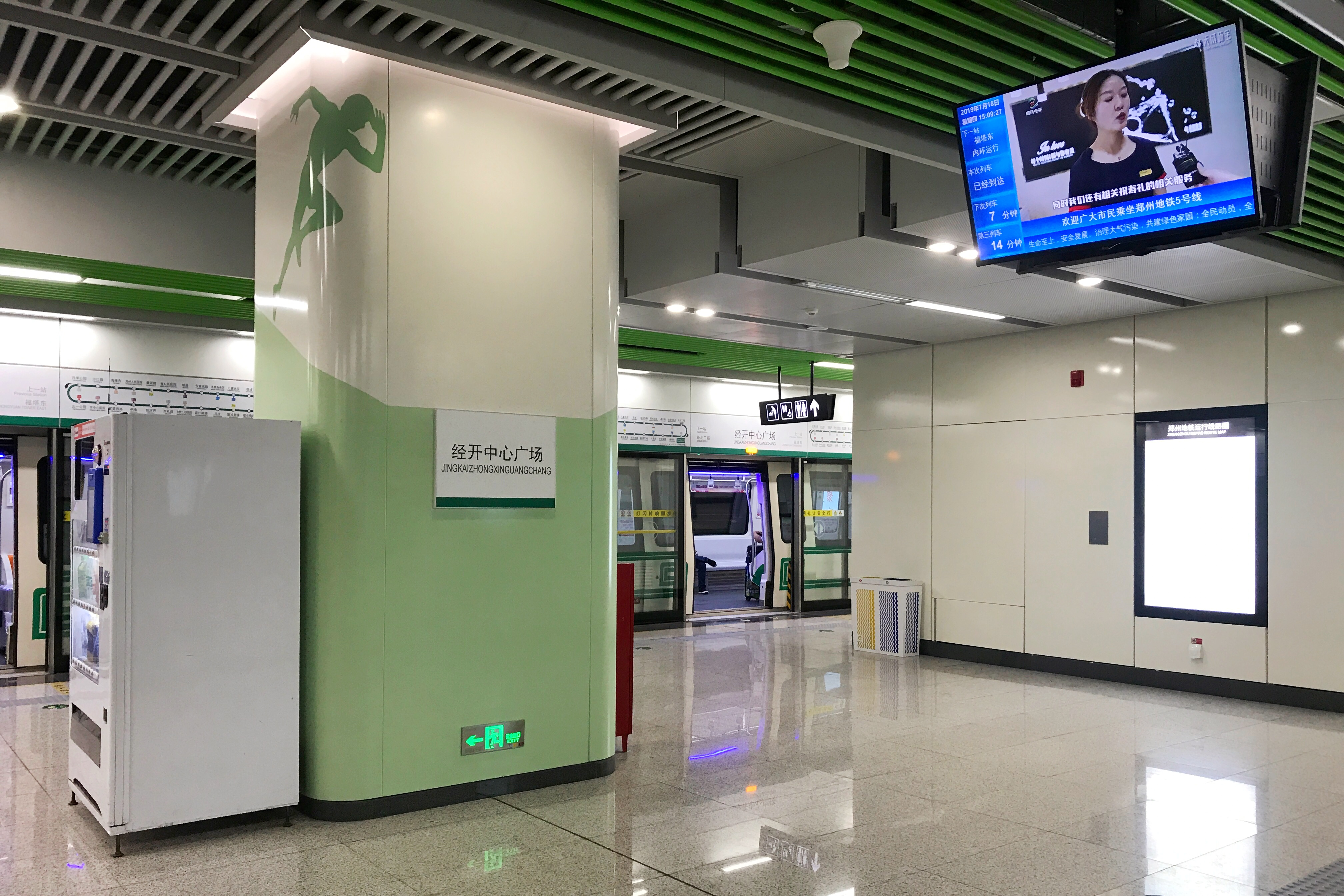 Platform of Jingkaizhongxinguangchang Station